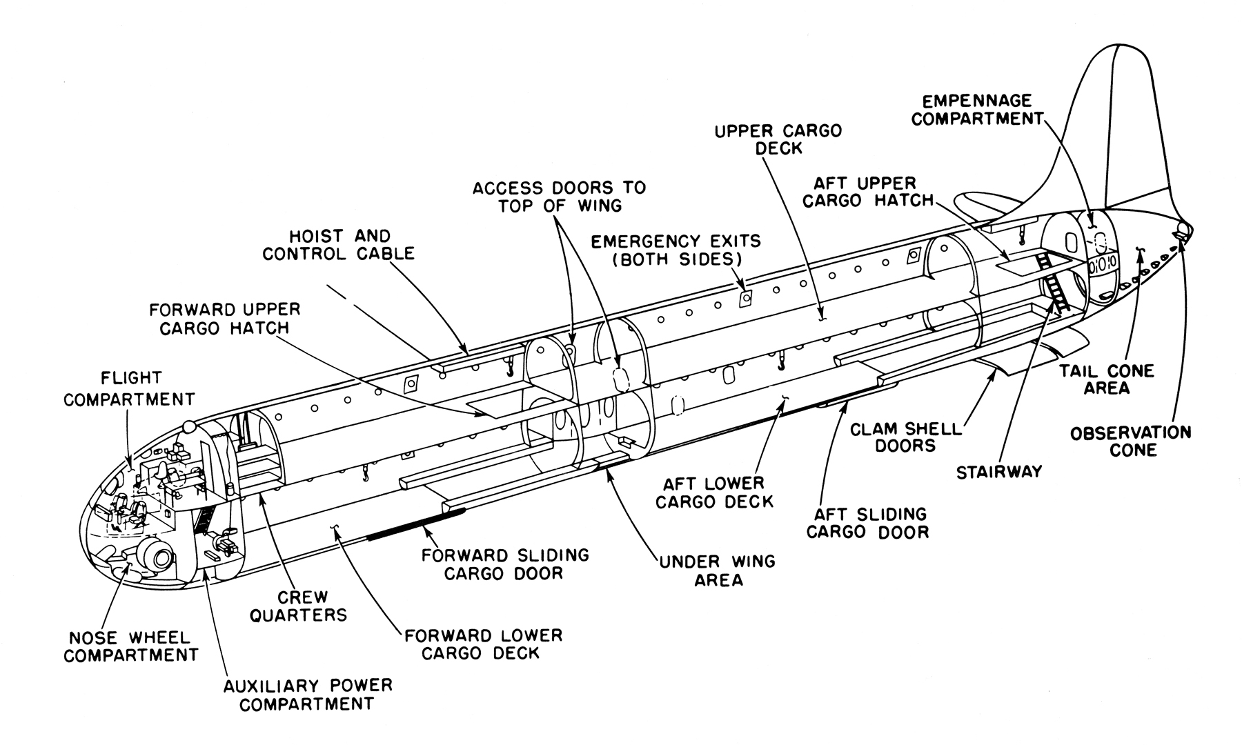 Interior details of the single U.S. Air Force Convair XC-99 (s/n 43-52436).